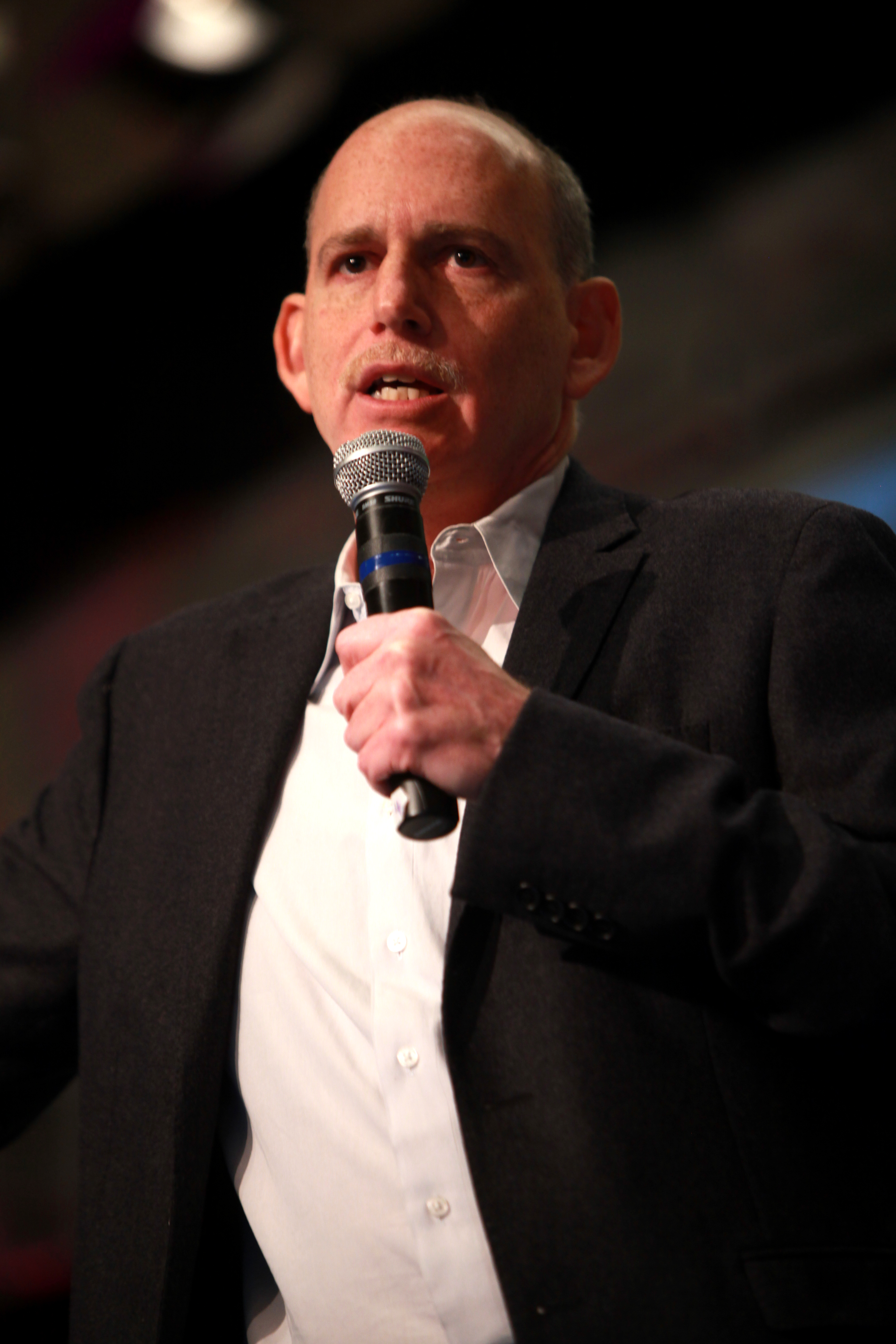 Ethan Nadelmann speaking at an event in Washington, D.C.